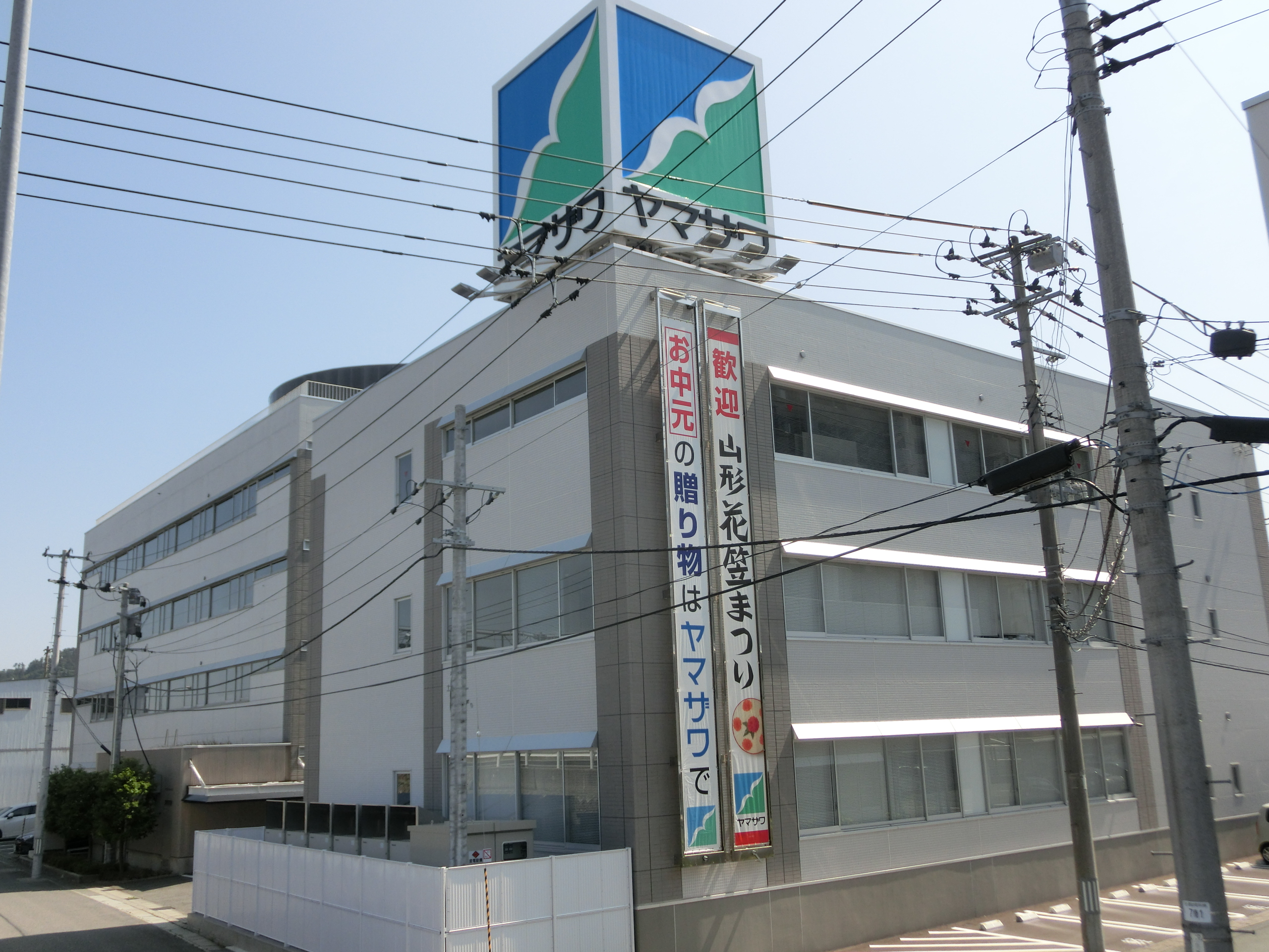 Yamazawa Co., Ltd. Head Office